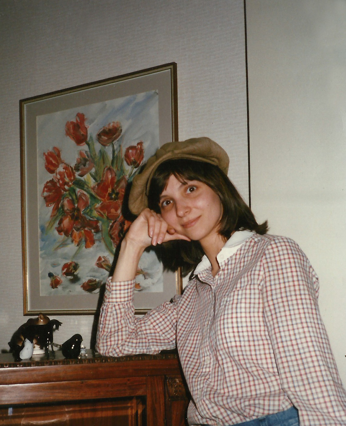 Sonja Vectomov in Jyväskylä